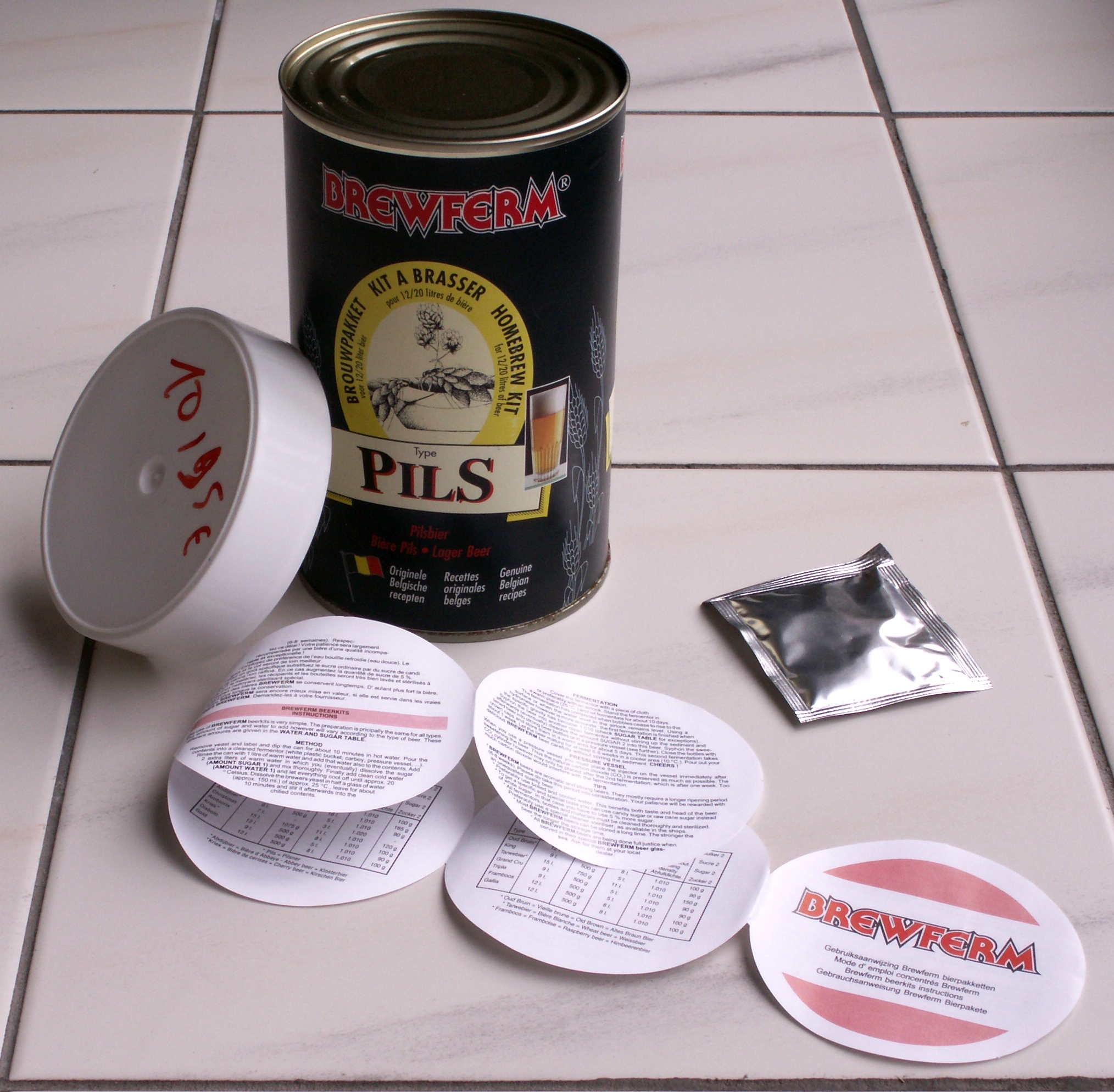 A picture of a Belgian "BREWFERM" beerkit. As can be seen, the kit includes hopped malt extract, yeast and instructions on how the beer is to be made using this kit. Beer made using these kits is very inexpensive (10€ for 20l !) and allows the beer to be made calorie-poorer (by adding no sugar at all that is transformed into ethanol). This will btw also cause the beer to be lower in ethanol percentage